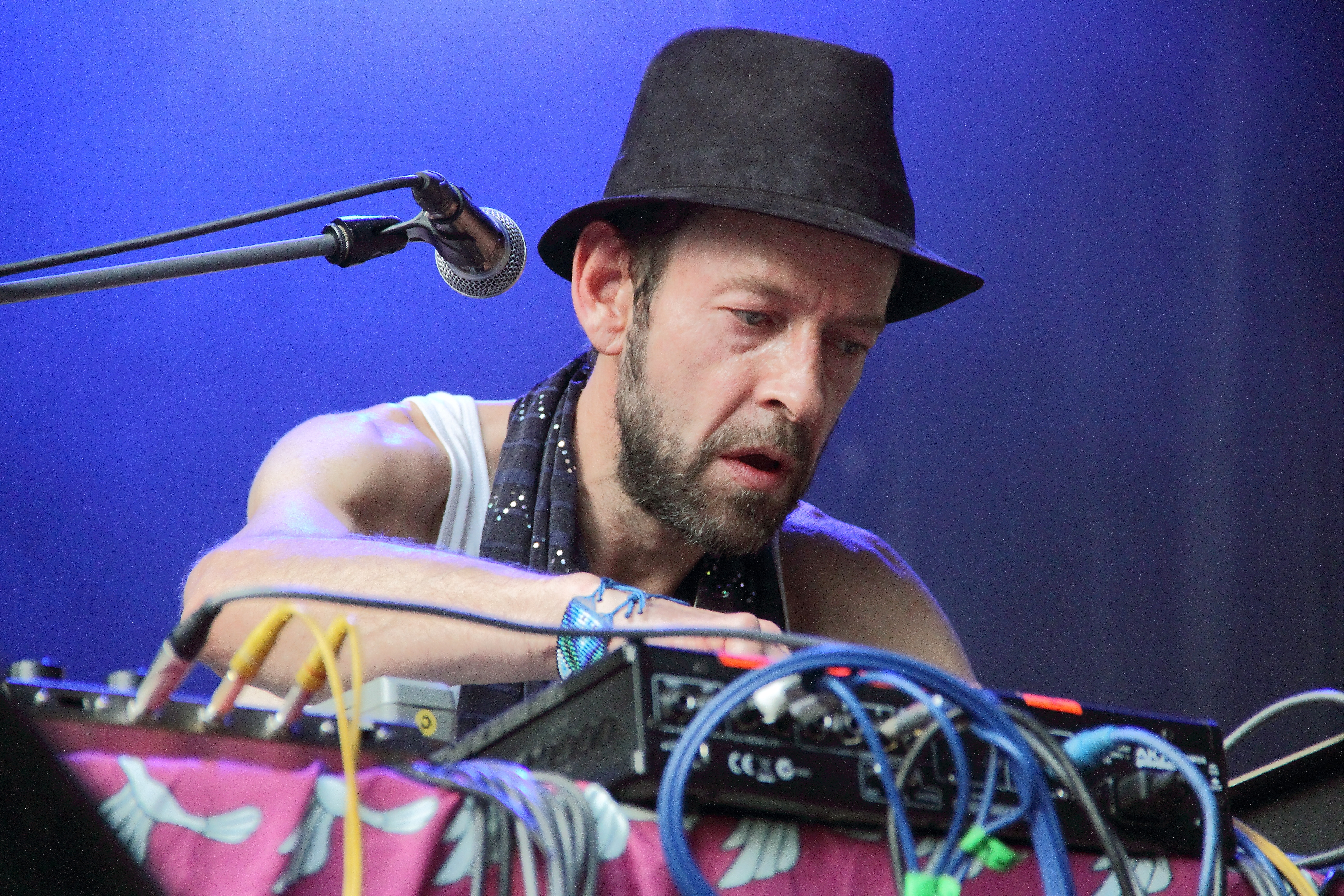 Sidestepper at Rudolstadt-Festival 2016.